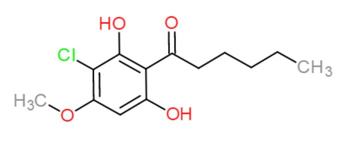 Differentiation Inducing Factor 3.